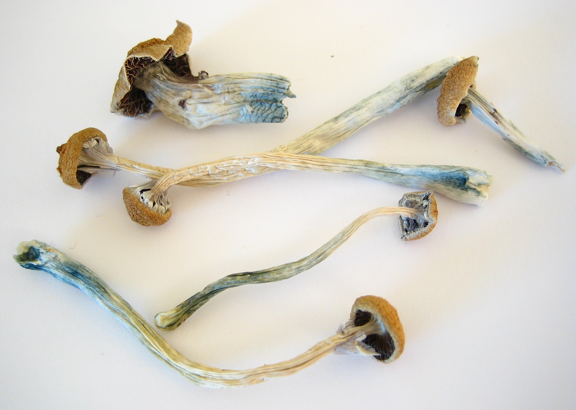 Dried Psilocybe cubensis magic mushrooms.